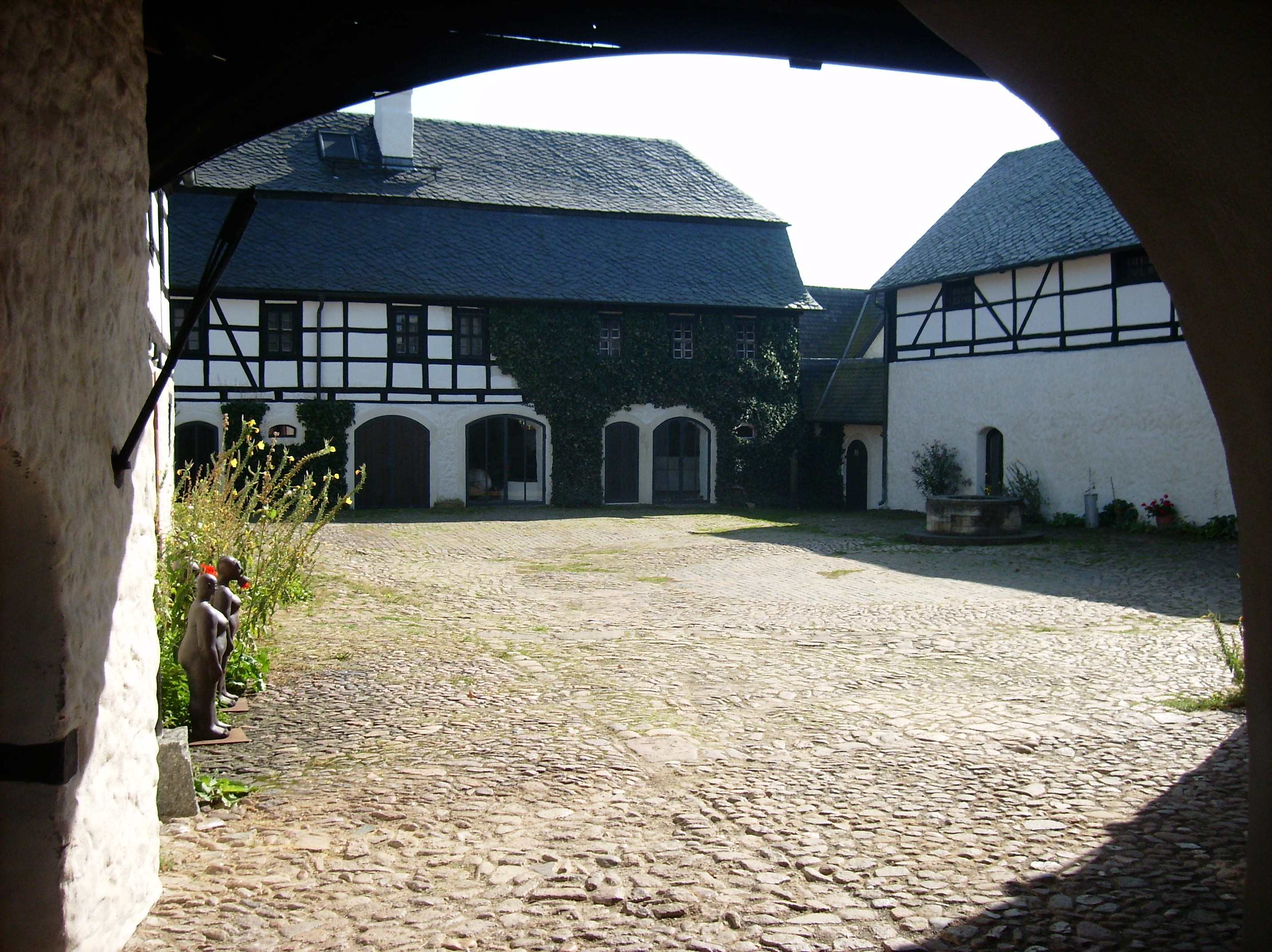 Quadrangle of the Denkmalschmiede Höfgen estate, Kaditzsch (Grimma, Leipzig district, Saxony)